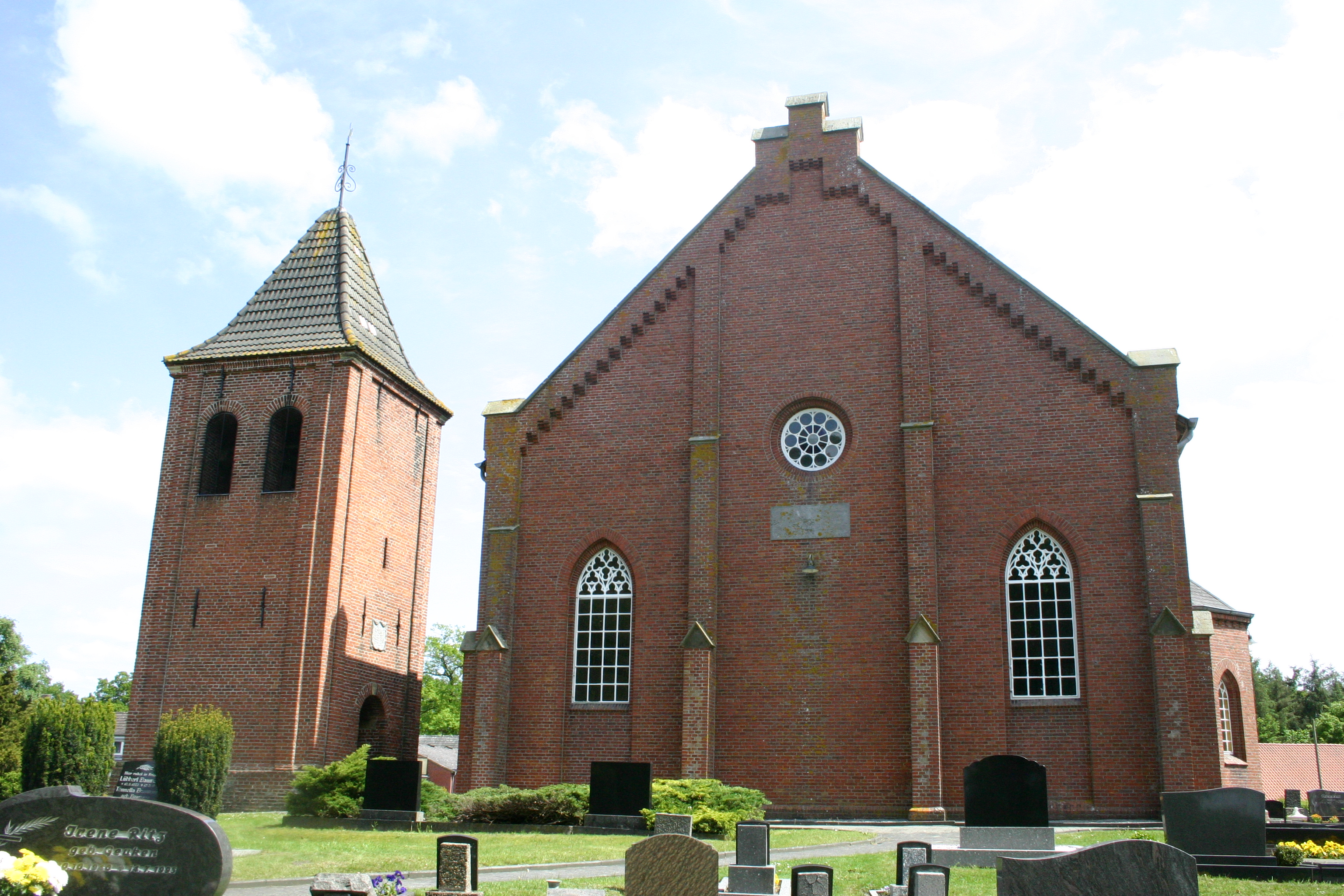 Historic church in Wymeer, district of Leer, East Frisia, Germany